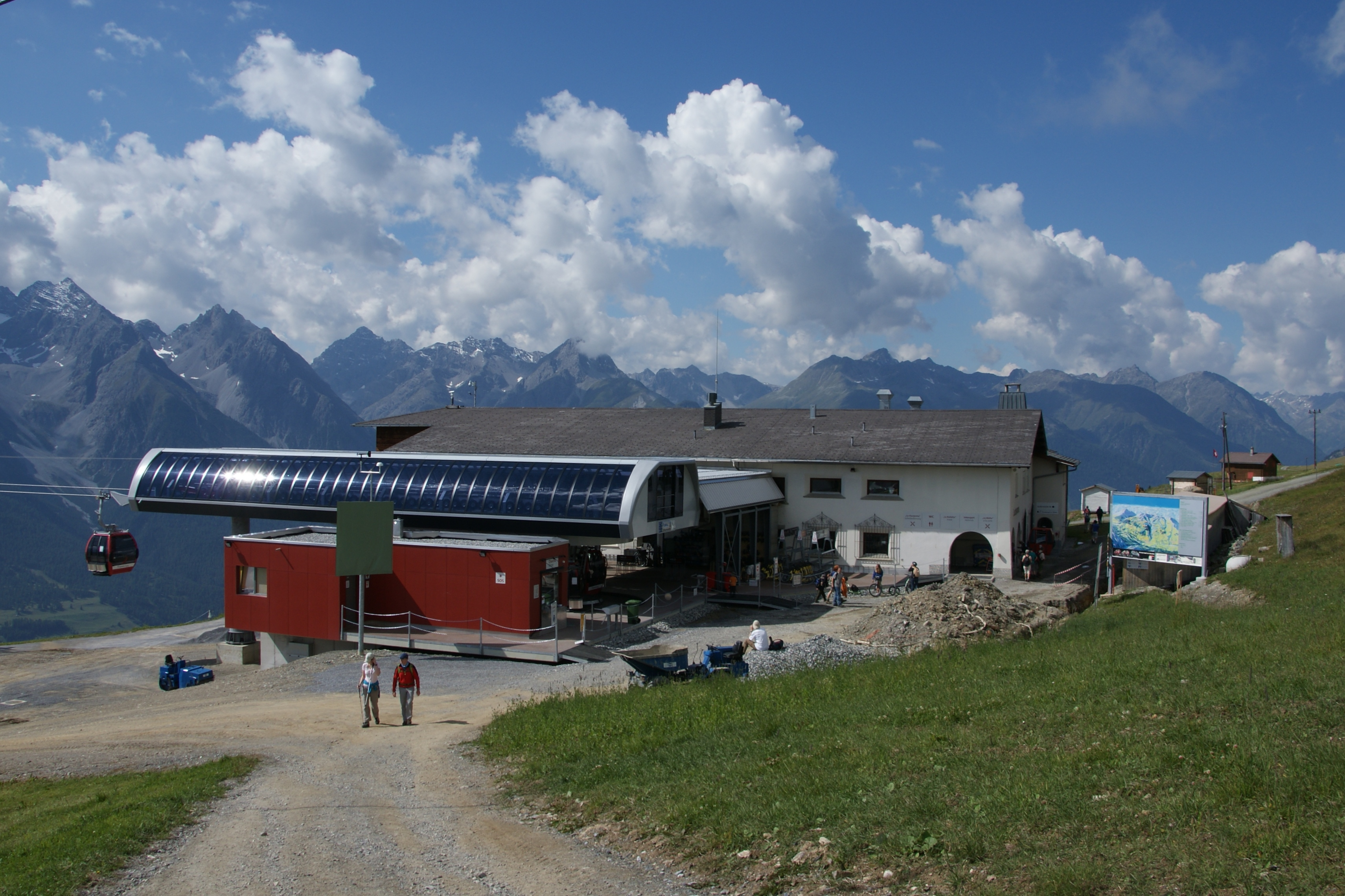 Top station of gondola lift from Scuol to Motta Naluns, Lower Engadine